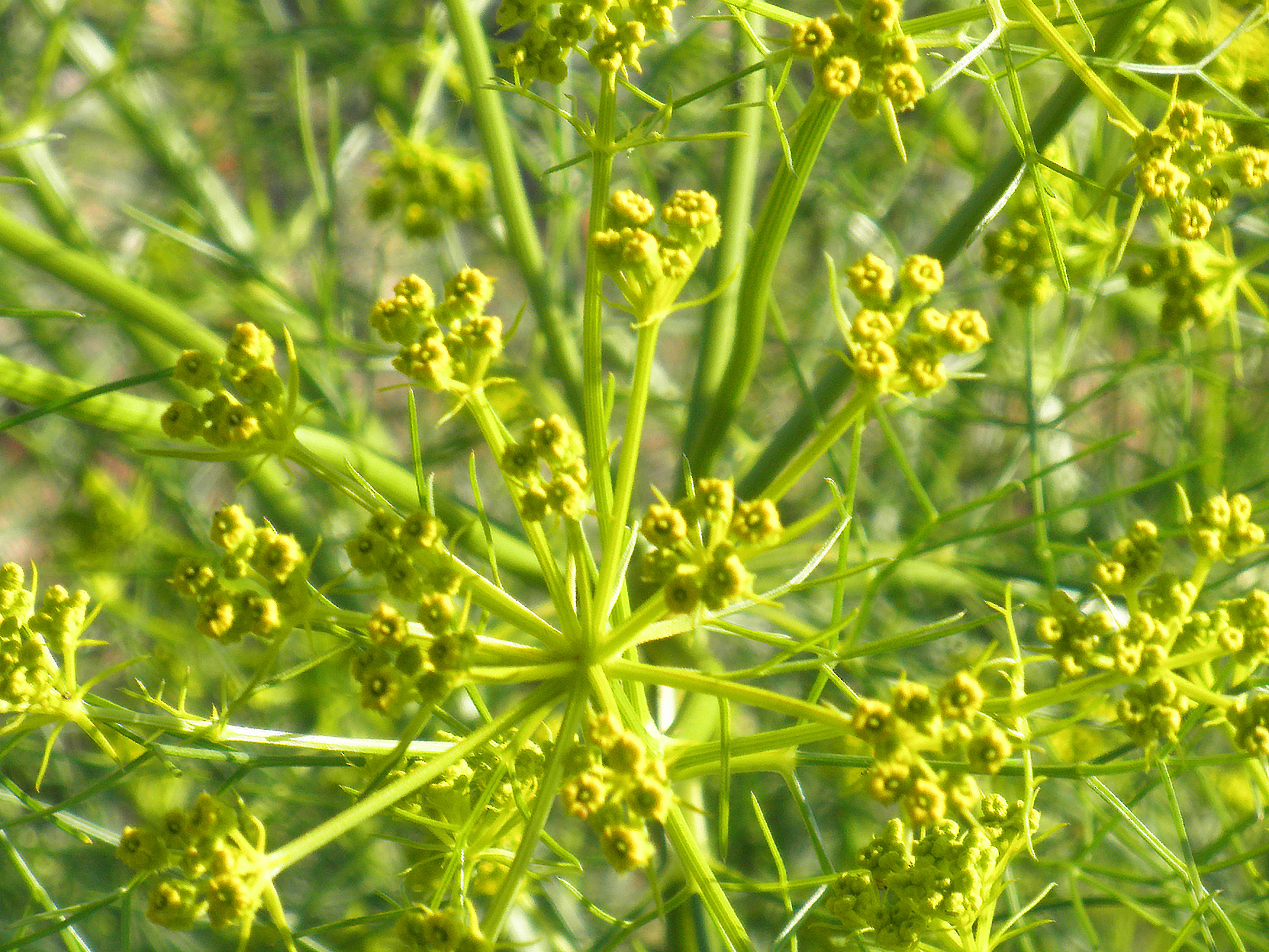 Cachrys sicula flowers and leaves, Campo de Calatrava, Spain